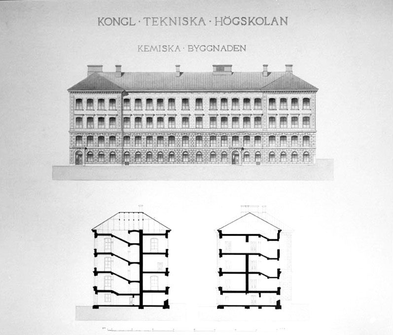 Ritningar över Kongl. Tekniska Högskolans kemiska byggnad, Drottninggatan 95. 1880-1920 Utsnitt ur foto av av Klemming, Frans G (Fotograf). BILDNUMMER: C 3174Stockholms stadsmuseum, Sweden